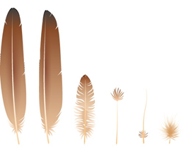 puplat